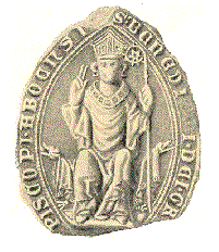 Henry, Bishop of Uppsala pictured in the seal of Bishop Benedictus of Finland from 1332 19/4.